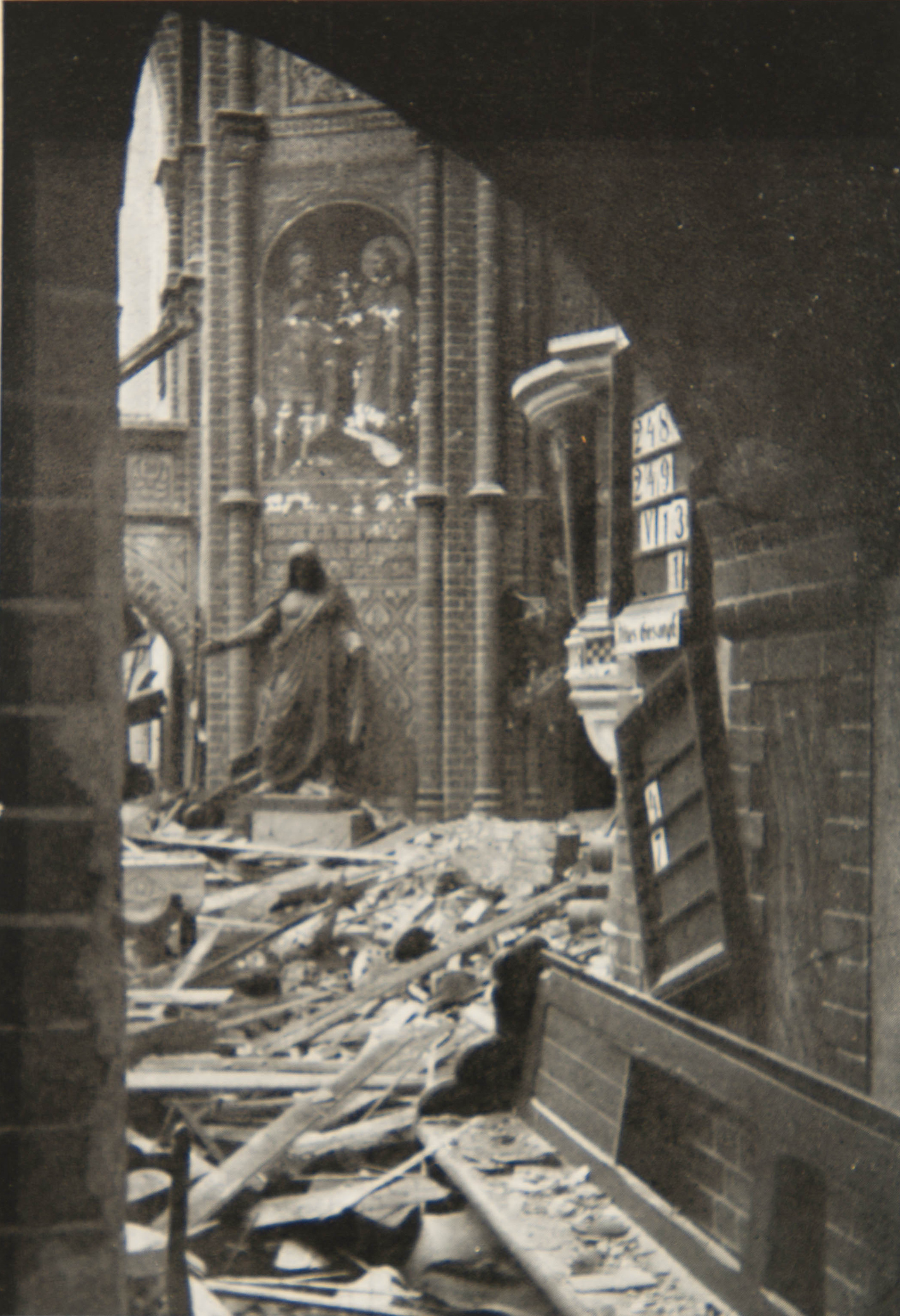 Zerstörte Kapernaumkirche nach dem Zweiten Weltkrieg